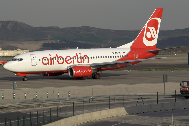 Air Berlin Boeing 737-700 D-ABAA